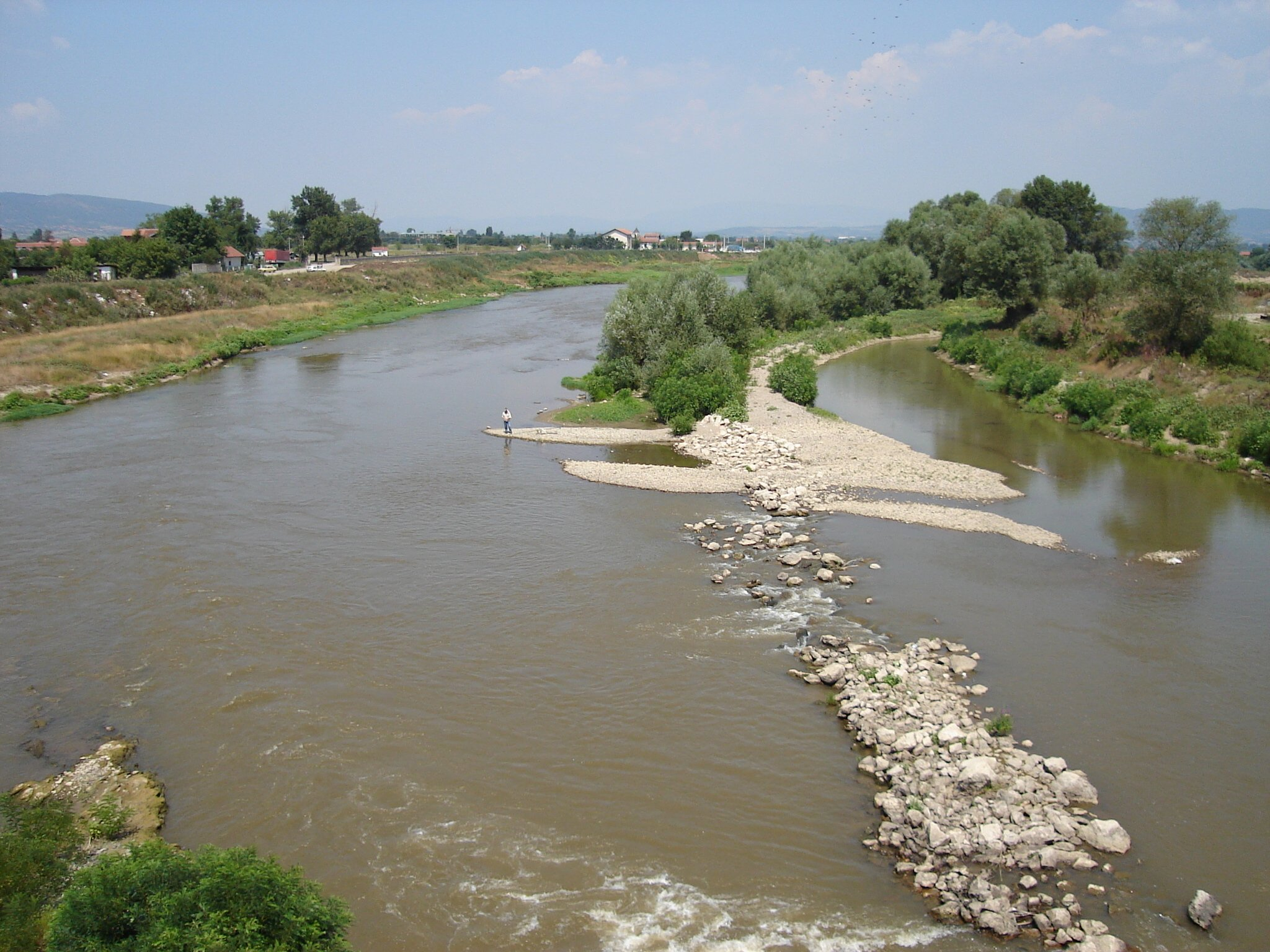 The river Južna Morava (Southern Morava) near Niš in Serbia .